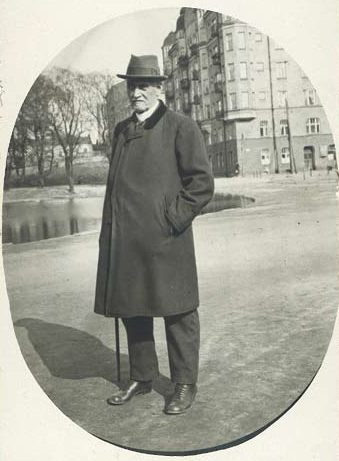 Photograph oh the Finnish physician August Hillbom (1853–1935).